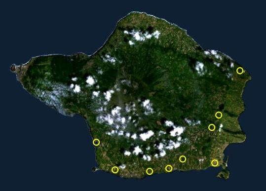 Distribution of Gomphocarpus fruticosus on Azorean island Faiail